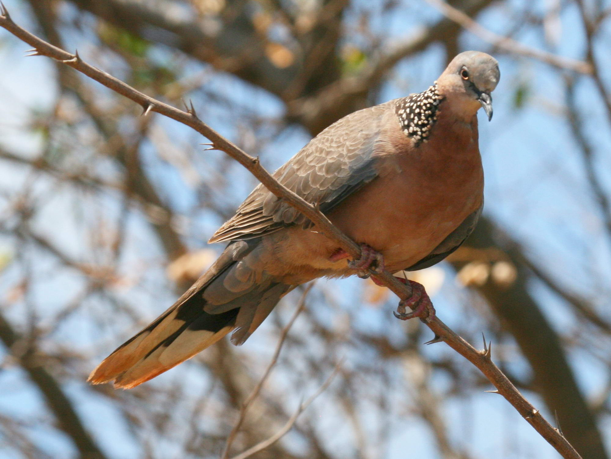 Spotted Dove, also known as Spotted Turtle Dove, Spilopelia chinensis - Kauai, Hawaii